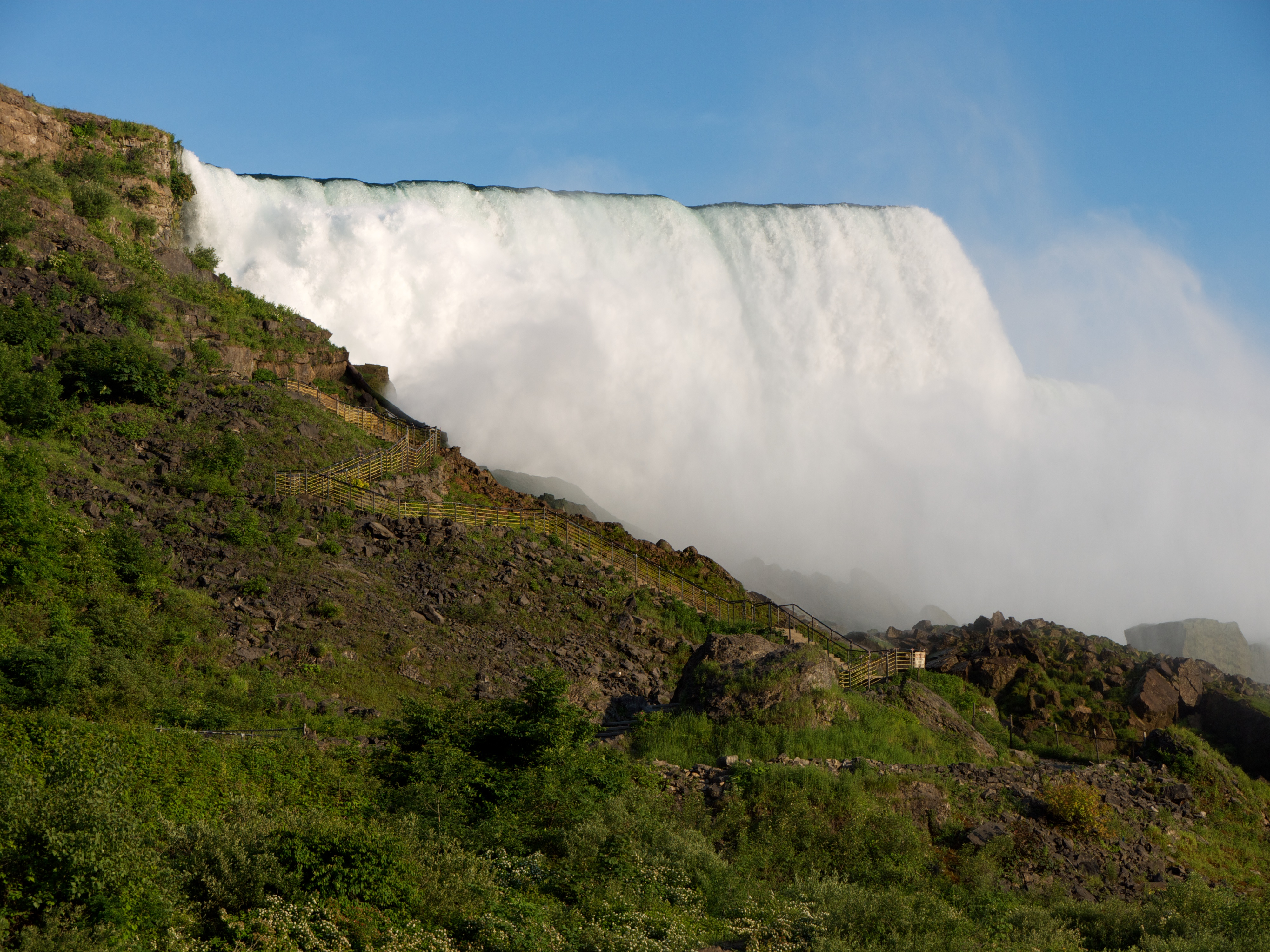 Side view of American Falls